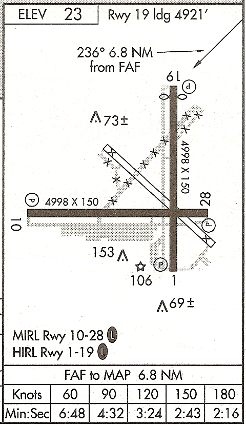 Runway diagram for Cape May Airport (WWD) near Wildwood, New Jersey, United States.